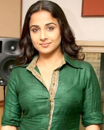 Vidya Balan promoting 'No One Killed Jessica' at Radio City 91.1 FM